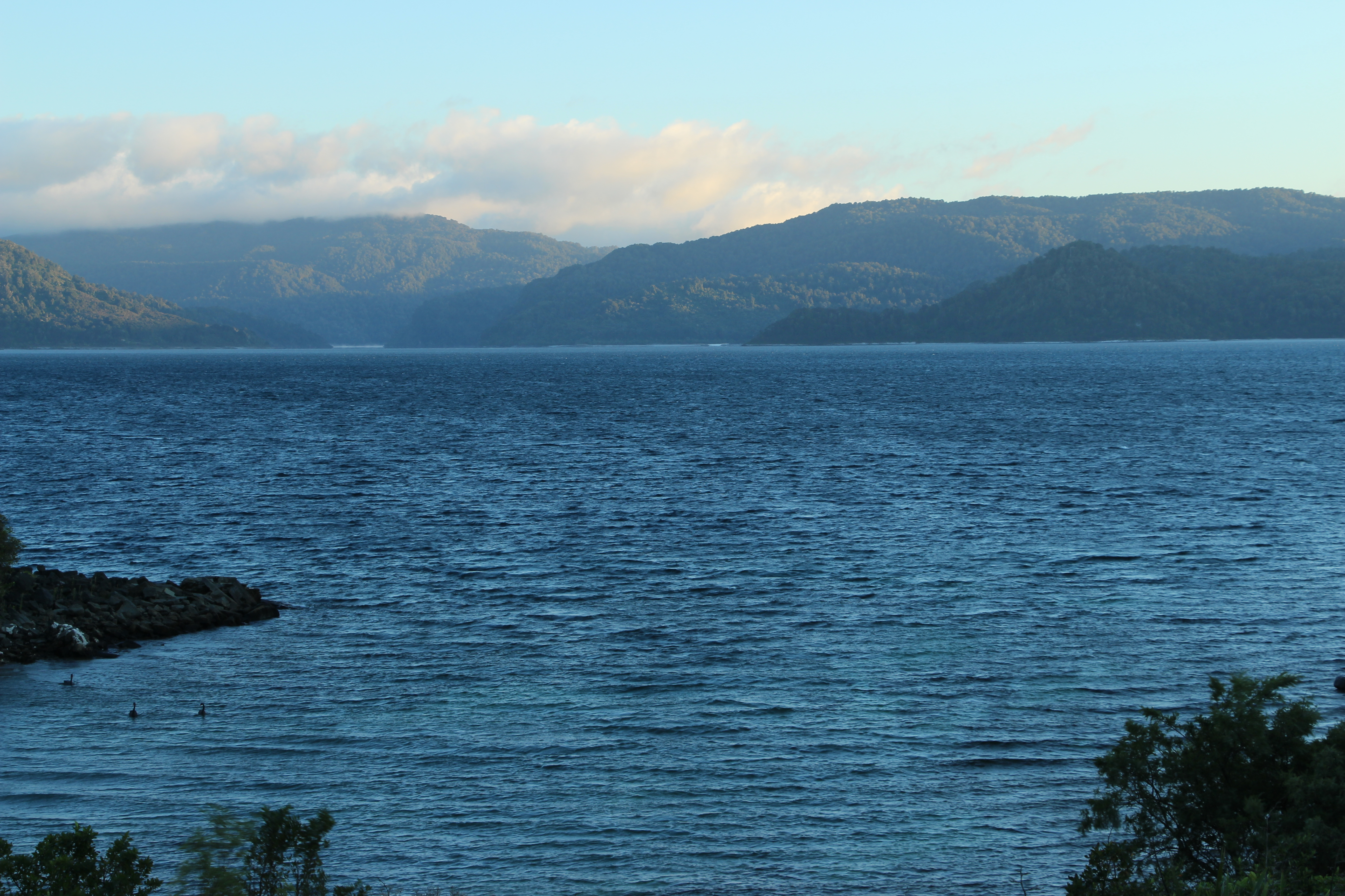 Great Walk Lake Waikaremoana, New Zealand